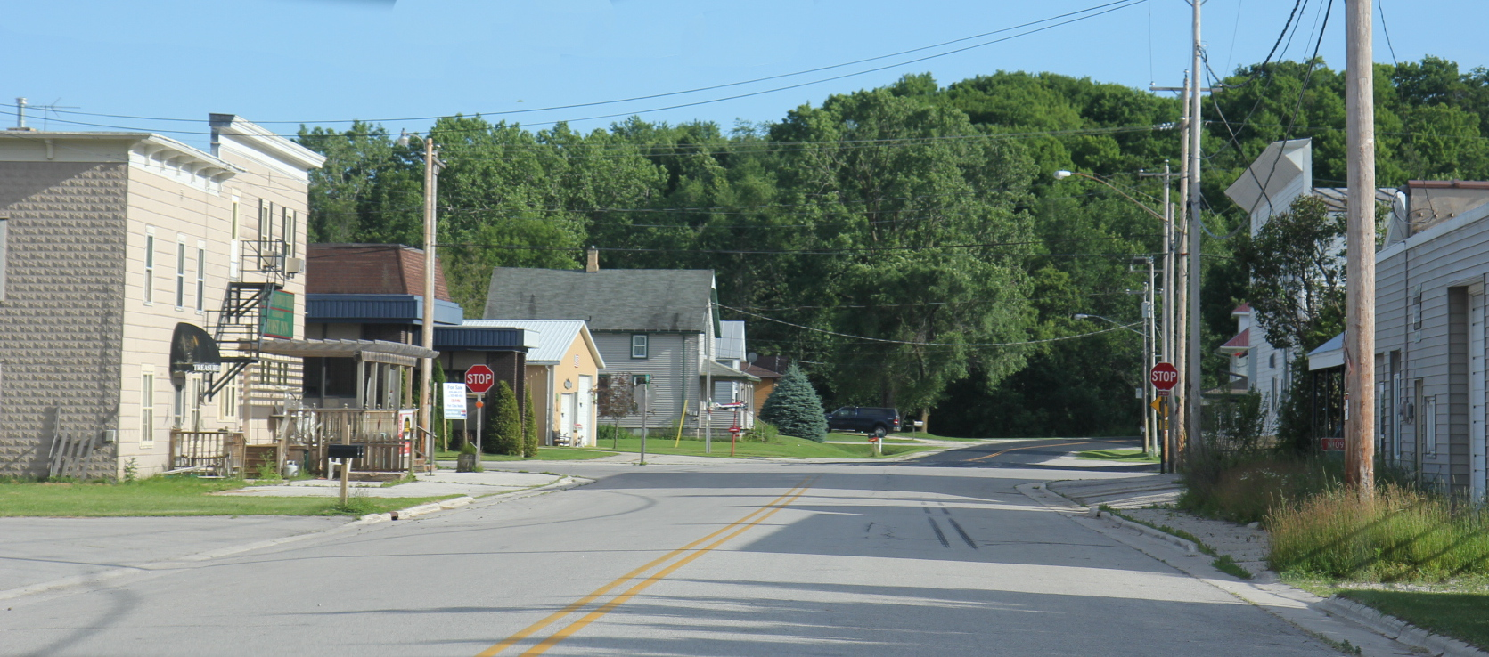 Looking south at the main intesection in Tisch Mills, Wisconsin.